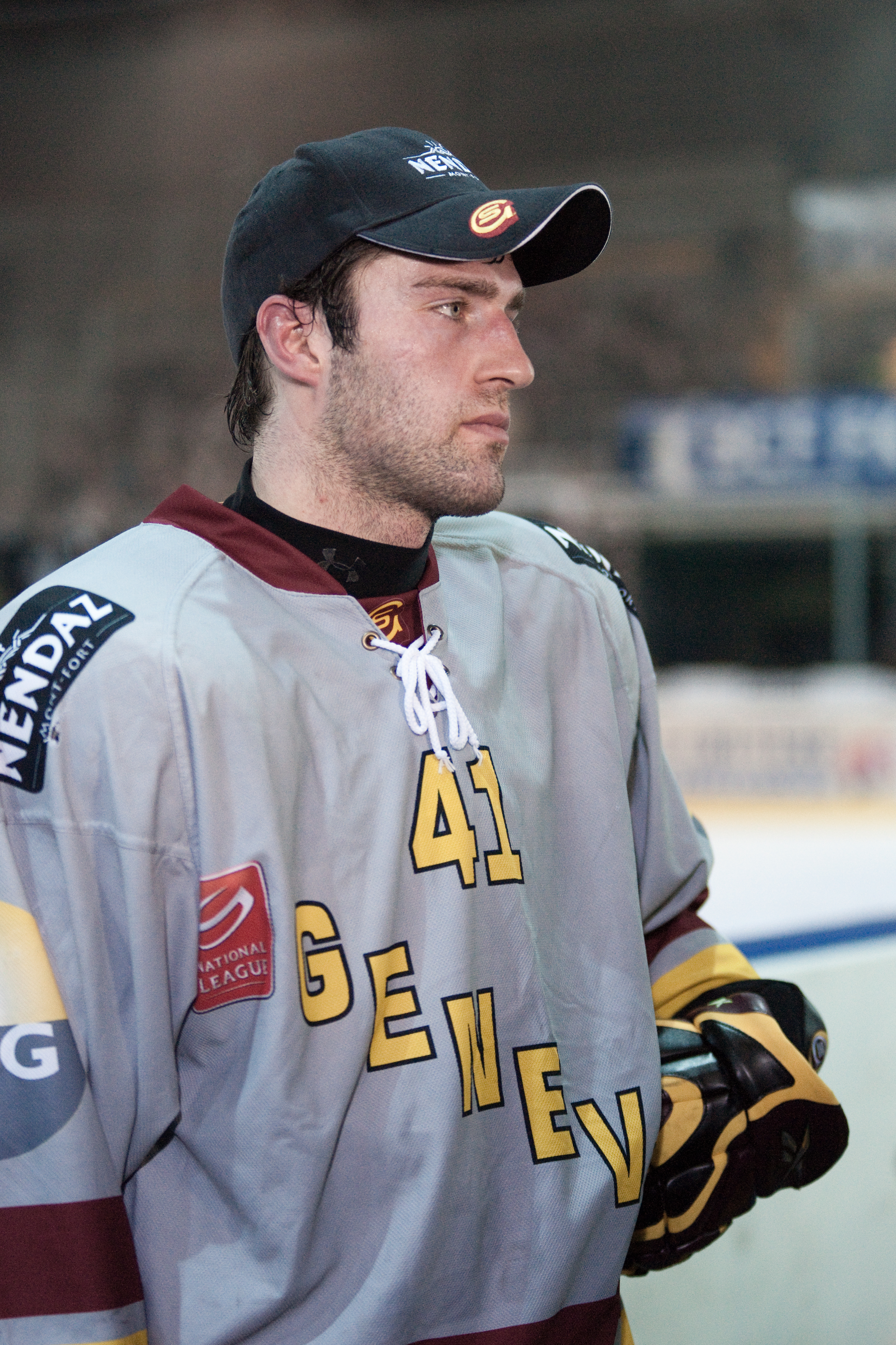 The making of this document was supported by Wikimedia CH. (Submit your project!) For all the files concerned, please see the category Supported by Wikimedia CH.